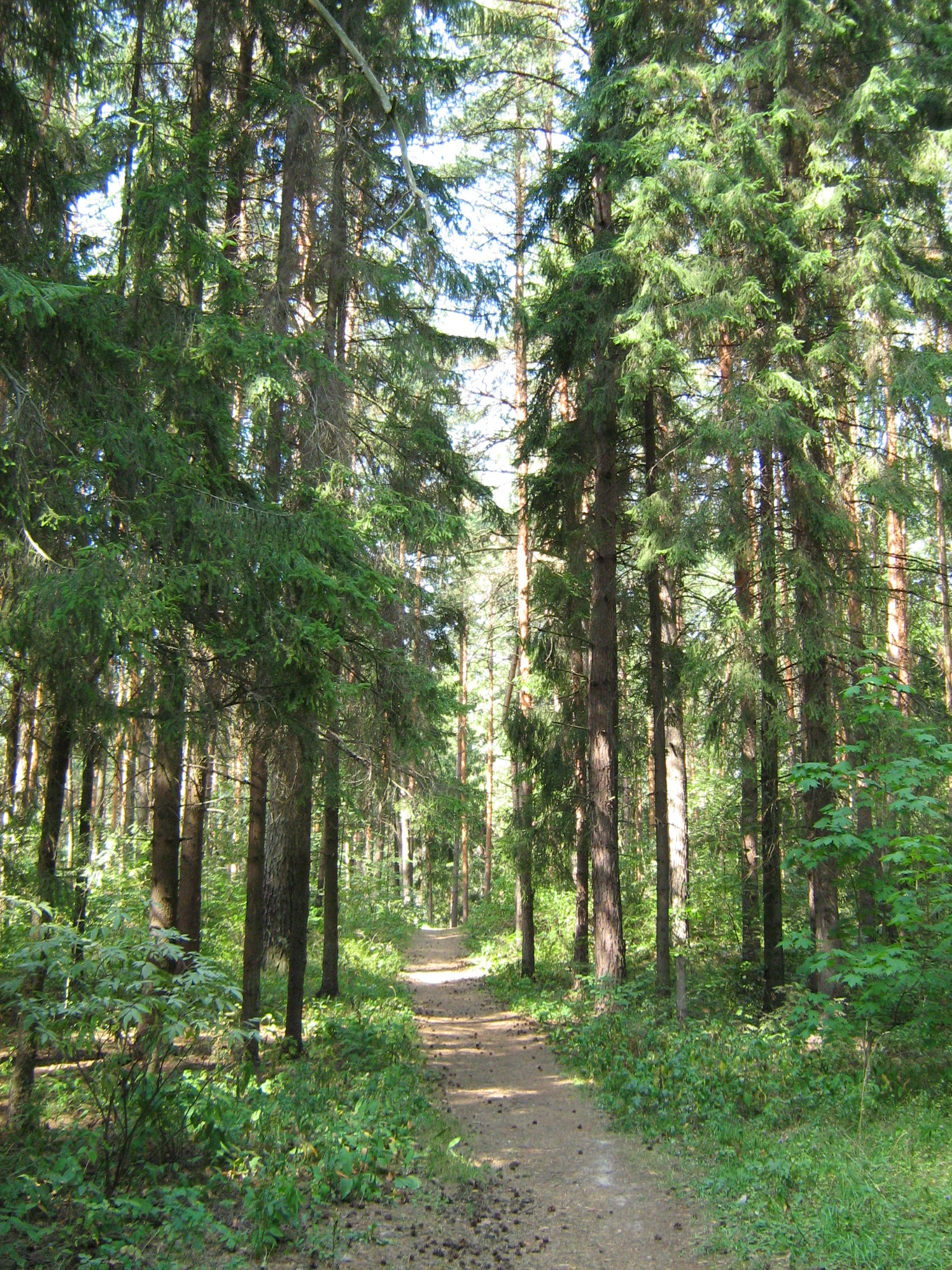 A trail in the Zelyony Gorod Forest, just west of Kstovo